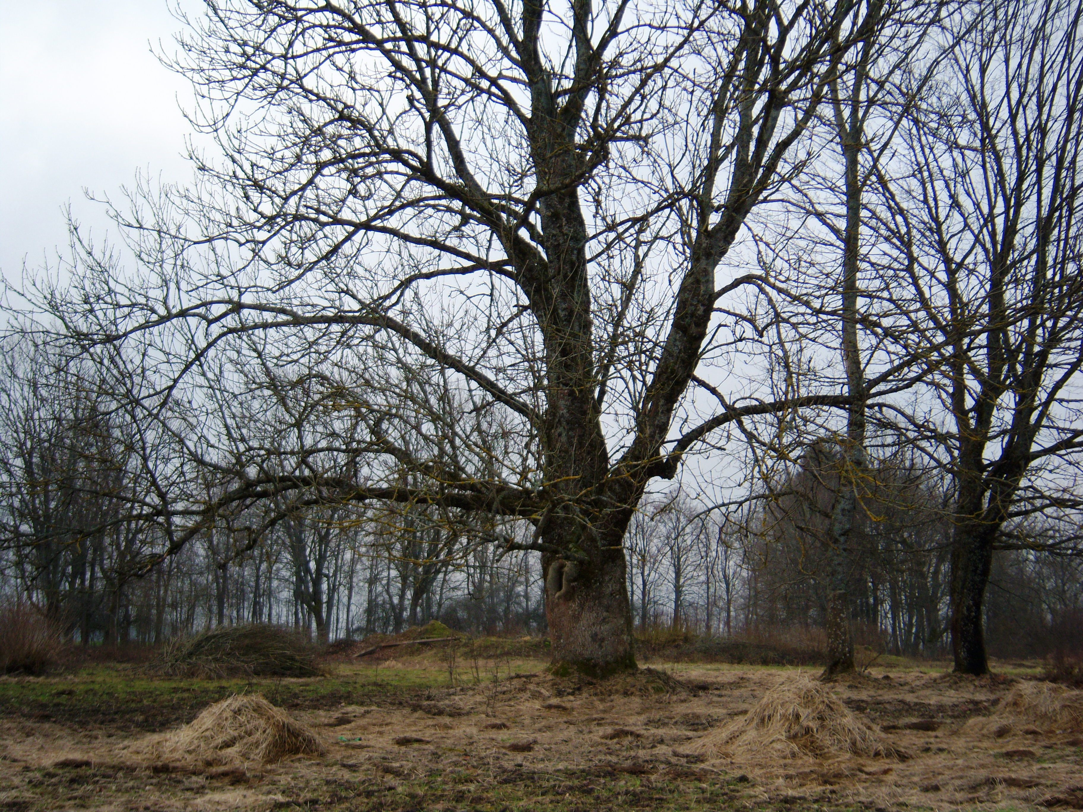 Neveravičius ash tree, Raseiniai District, Lithuania